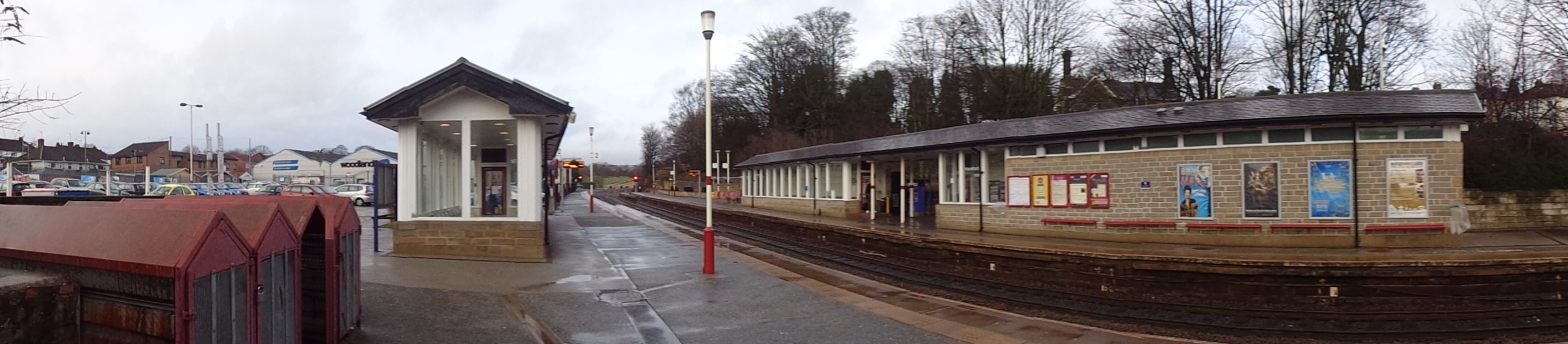 Horsforth railway station, Horsforth, Leeds, West Yorkshire. Taken on the afternoon of Monday the 30th of December 2013.